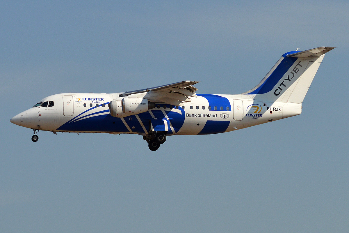 CityJet (Leinster Rugby Livery), EI-RJX, Avro RJ85